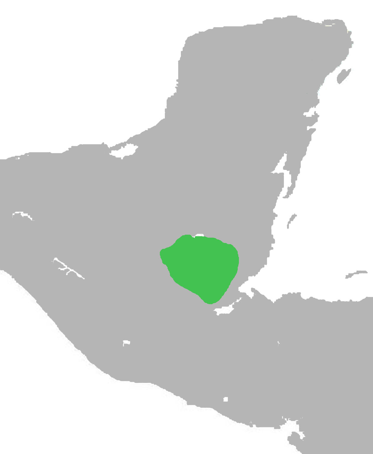 In 1194 Hunac Ceel drove the Itza people out of Yucatan. They moved to Nojpeten an island in lake peten Itza, and started a new kingdom.